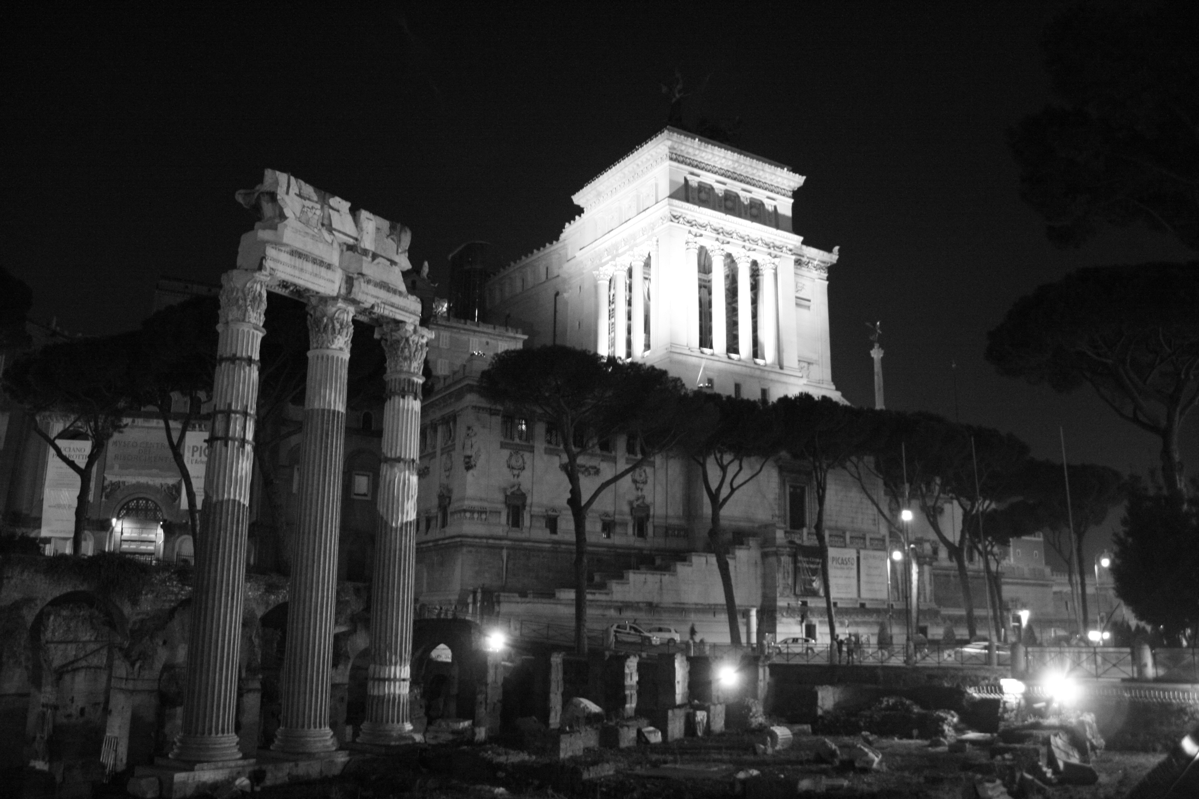 Forum of Caesar with a detail of Vittoriano in background